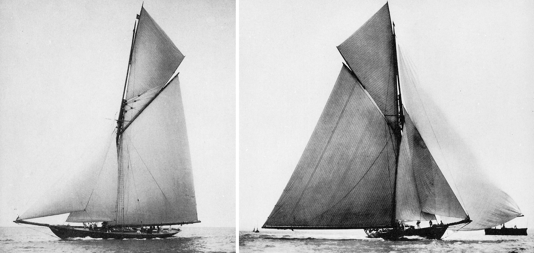 Prince of Wales Edward VII's racing yacht Britannia (George Lennox Watson, 1893) in her first season.